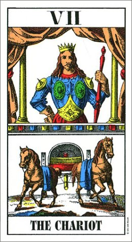 Trump 7 The Chariot of the 1JJ tarot deck. English version.